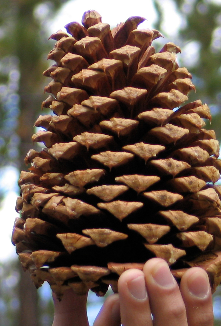 Pinus jeffreyi cone. Near Lake Tahoe, Sierra Nevada.